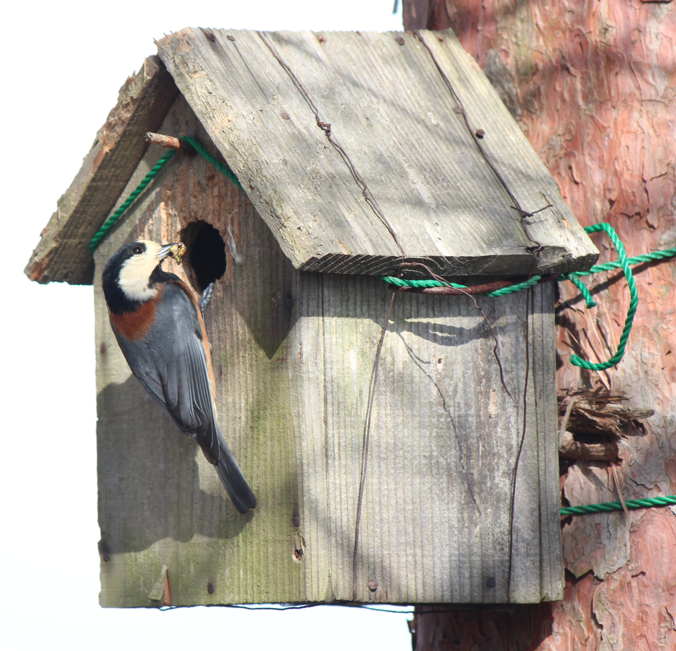 Parus varius (Varied tit) on nest box in Japan.